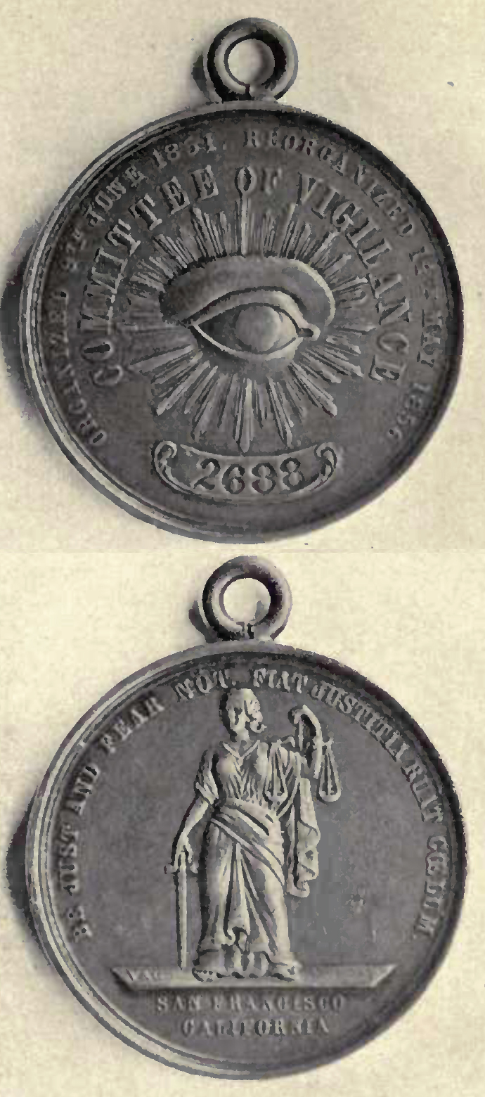 Medal of the San Francisco Committee of Vigilance of 1856. "Organized 9th June 1851. Reorganized 14th May 1856". on back: "Be Just and Fear Not", "Fiat Justitia Ruat Coelum" (Let there be justice though the sky fall). From the collection of Mr. Charles B. Turril